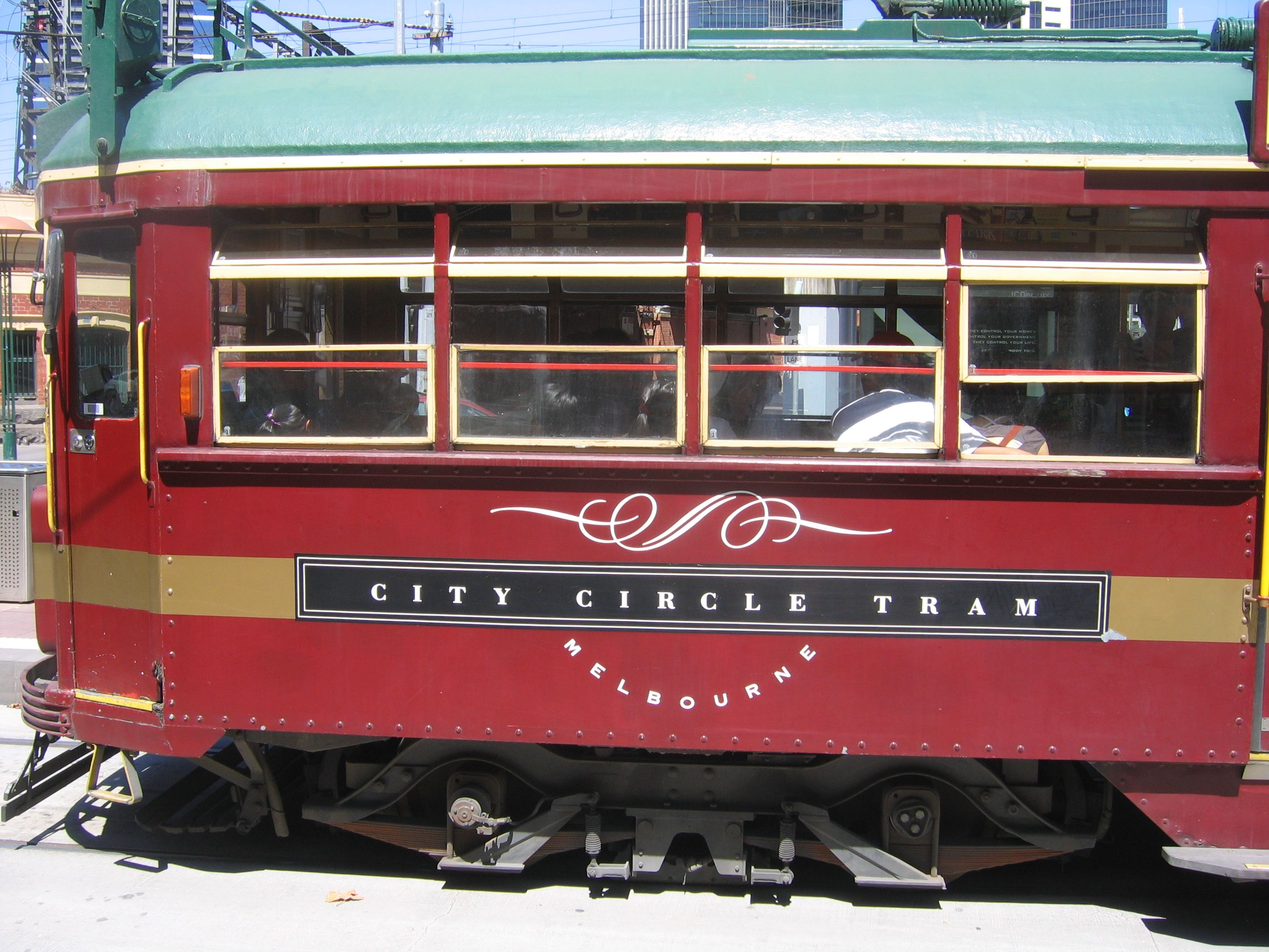 City Circle Tram Melbourne